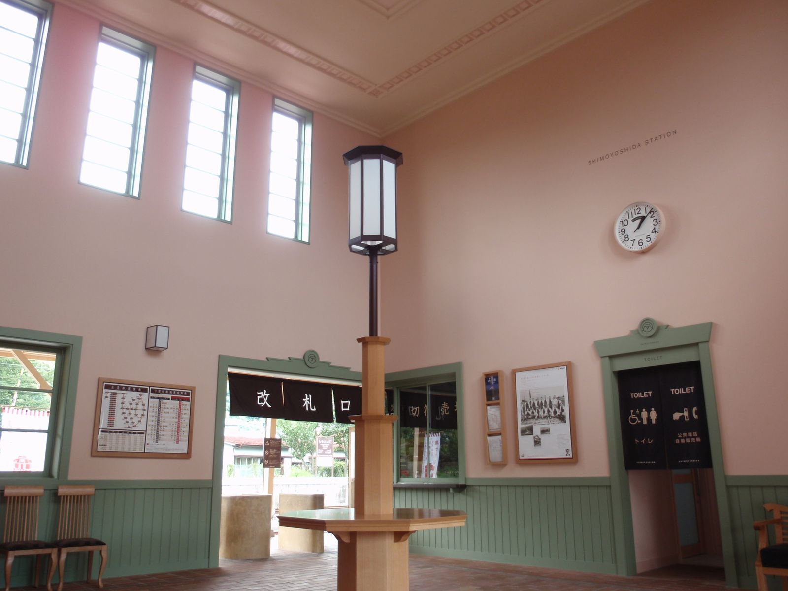 Inside of Shimoyoshida Sta.